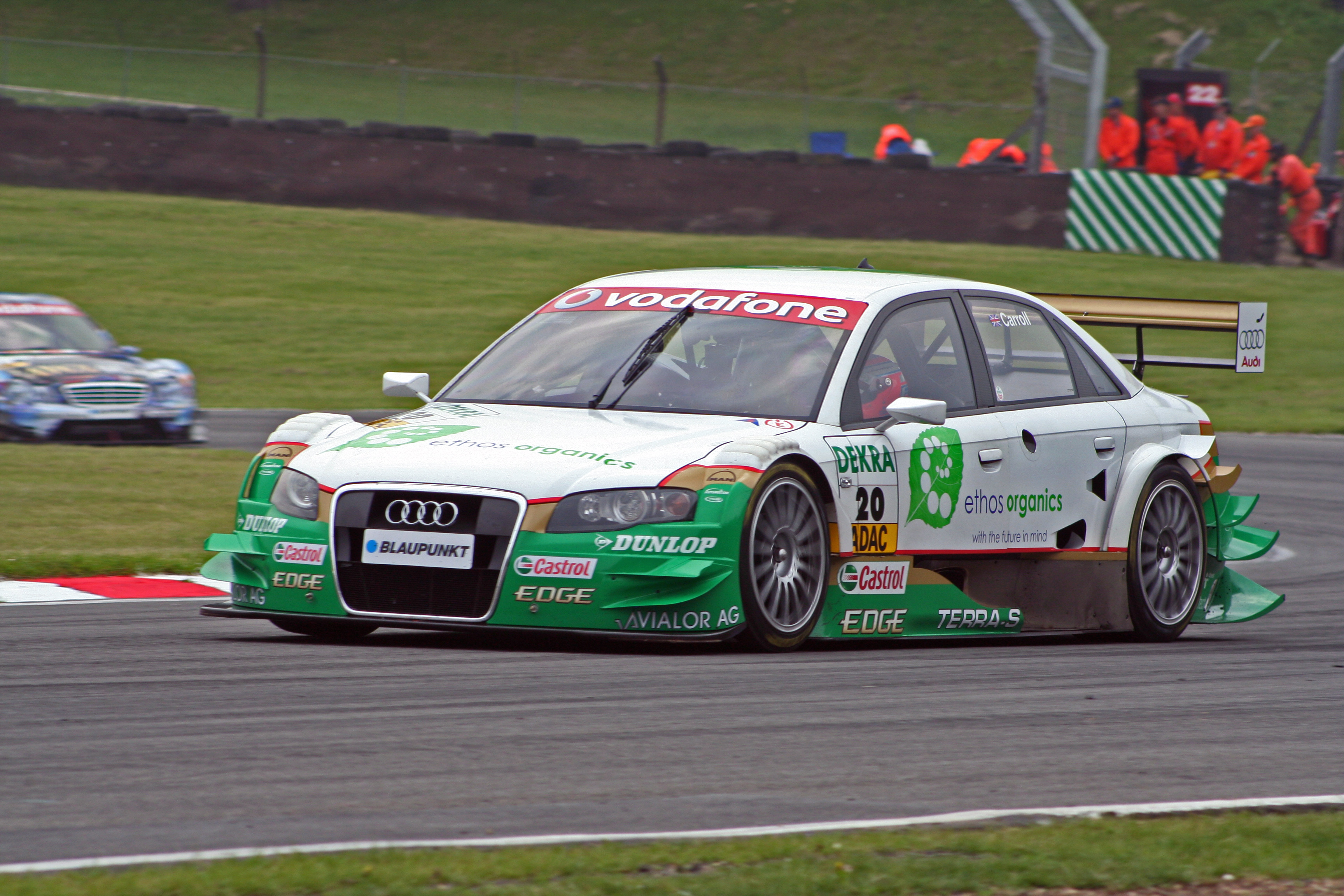 DTM Brands Hatch June 2007